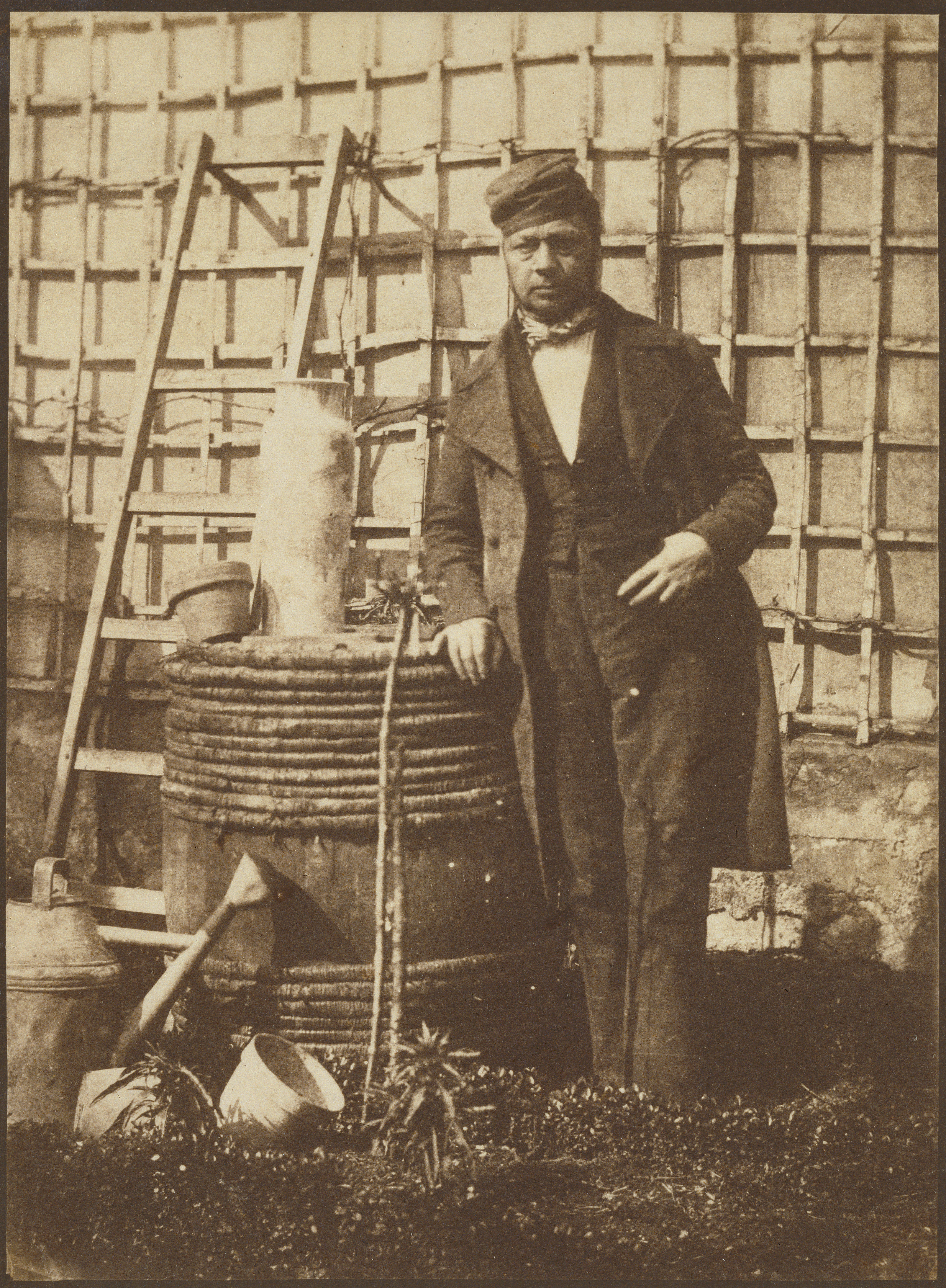 Hippolyte Bayard French, 1847 Salt print 6 1/2 x 4 13/16 in.